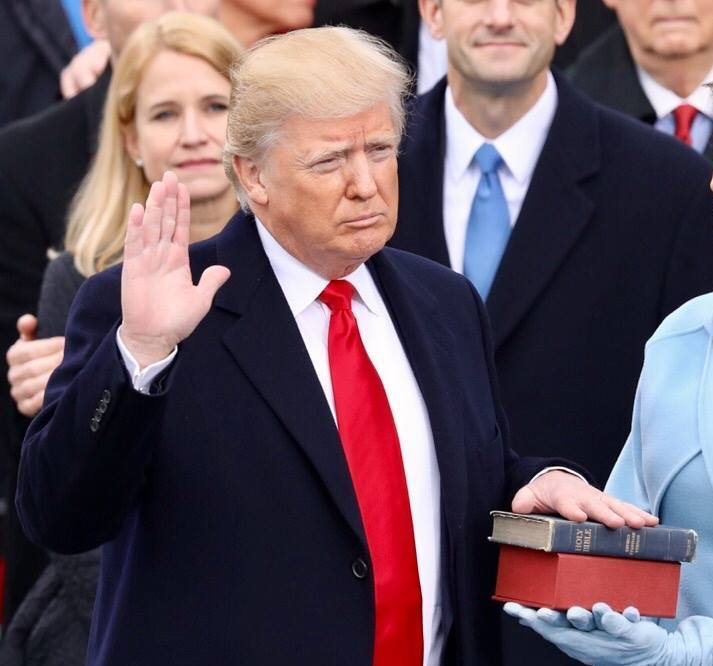 President Donald Trump being sworn in on January 20, 2017 at the U.S. Capitol building in Washington, D.C. Melania Trump wears a sky-blue cashmere Ralph Lauren ensemble. He holds his left hand on two versions of the Bible, one childhood Bible given to him by his mother, along with Abraham Lincoln’s Bible. Jonathan Adams (2017-01-20). Donald Trump’s Inauguration Bible: What Bible Is Donald Trump Using to Get Sworn in Today?. .